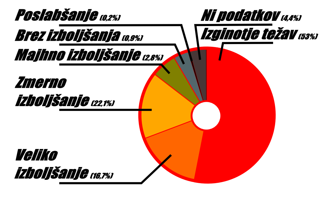 Health Problems and Life Technology. Based on descriptions in McCrum, Sarah (2008). Analysis of the Effects of Rejuvenation on Clients’ Stress, Physical Health and Emotional Problems. Academy of Potential Education, pp. 11. Degree of Health Improvement has been changed from percentage value to descriptive value. Informaton are shown in pie.